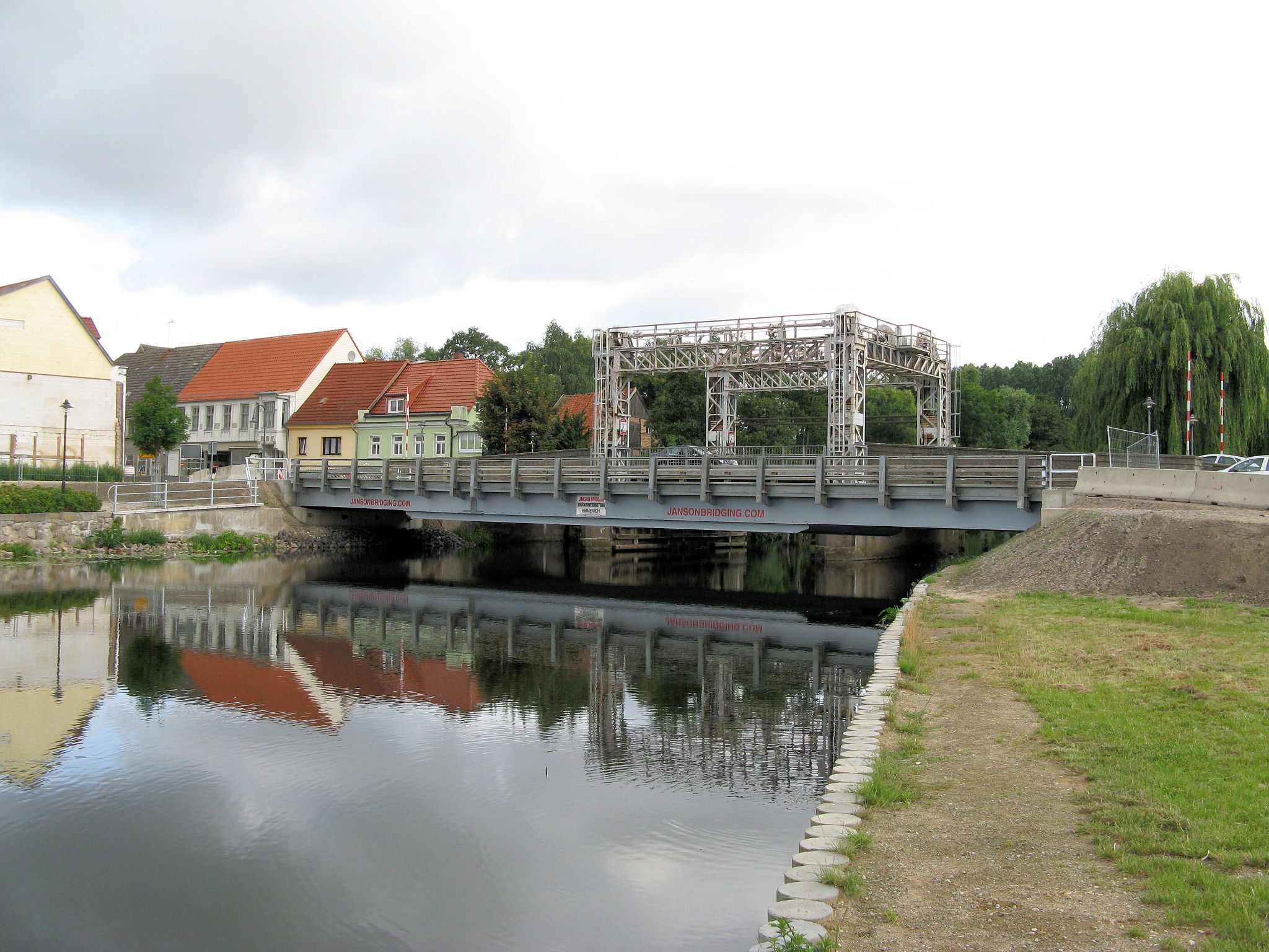 Temporary bridge next to the vertical lift bridge in Schwaan, disctrict Bad Doberan, Mecklenburg-Vorpommern, Germany